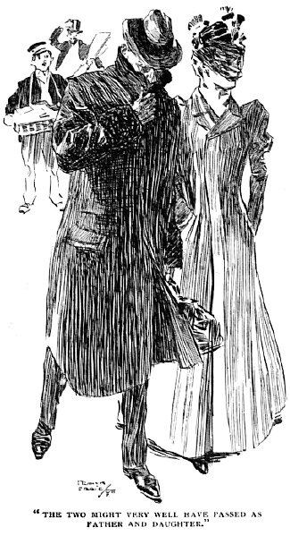 Arthur Conan Doyle, The Man with the Watches (1898), Illustration by Frank Craig, in The Strand Magazine "The two might very well have passed as father and daughter." Артър Конан Дойл, Мъжът с часовниците (1898), Илюстрация от Франк Крейг, в списание „Странд”